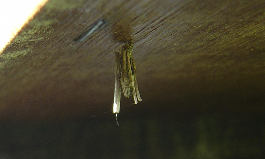 Zakjesdrage Psyche Casta: you can see the animal's head coming out of the coccoon, which is made of dried grass